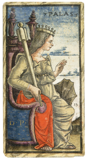 The card "Palais" from the Sola-Busca Tarot Deck